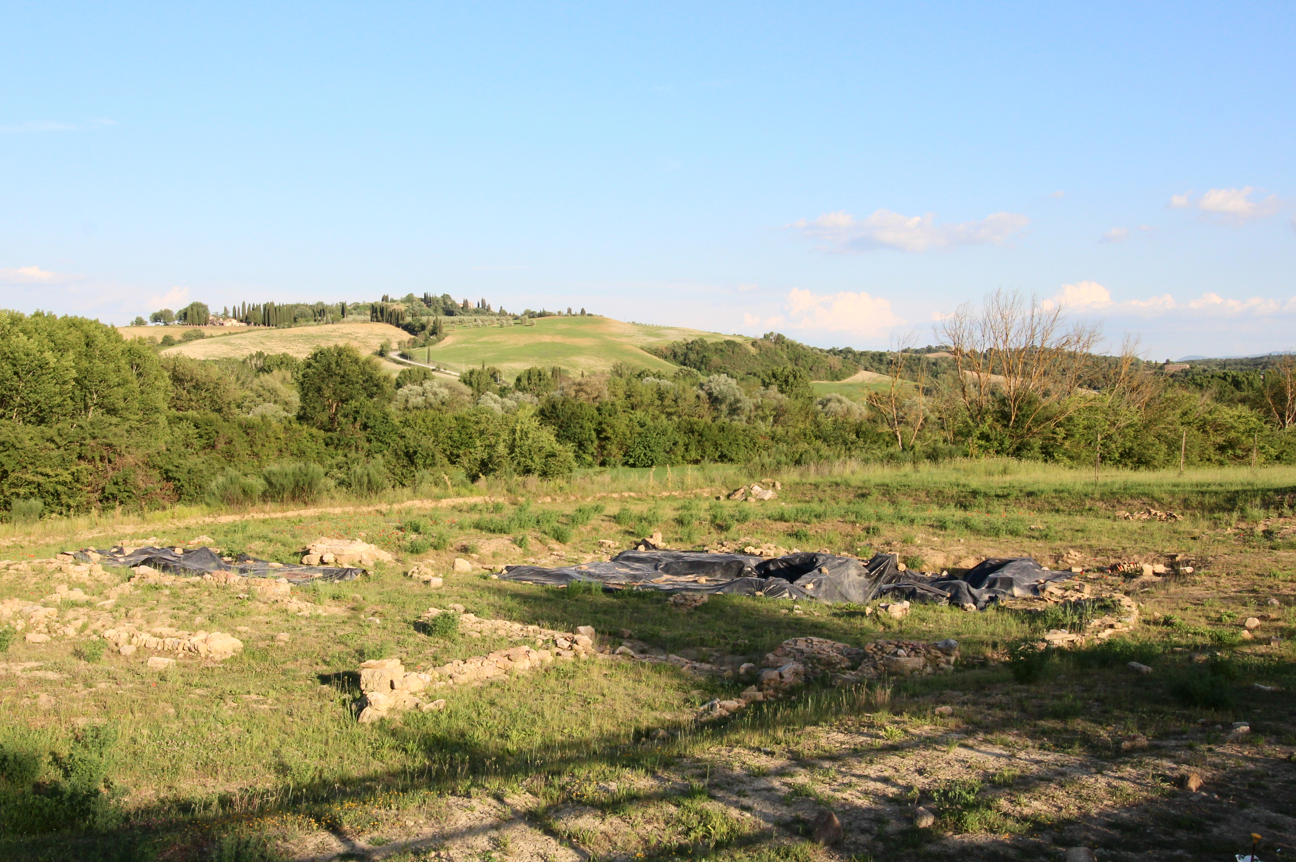 Church ruin and Archaeological site San Pietro a Pava, Pieve a Pava, (San Giovanni d'Asso), municipality of Montalcino, Province of Siena, Tuscany, Italy